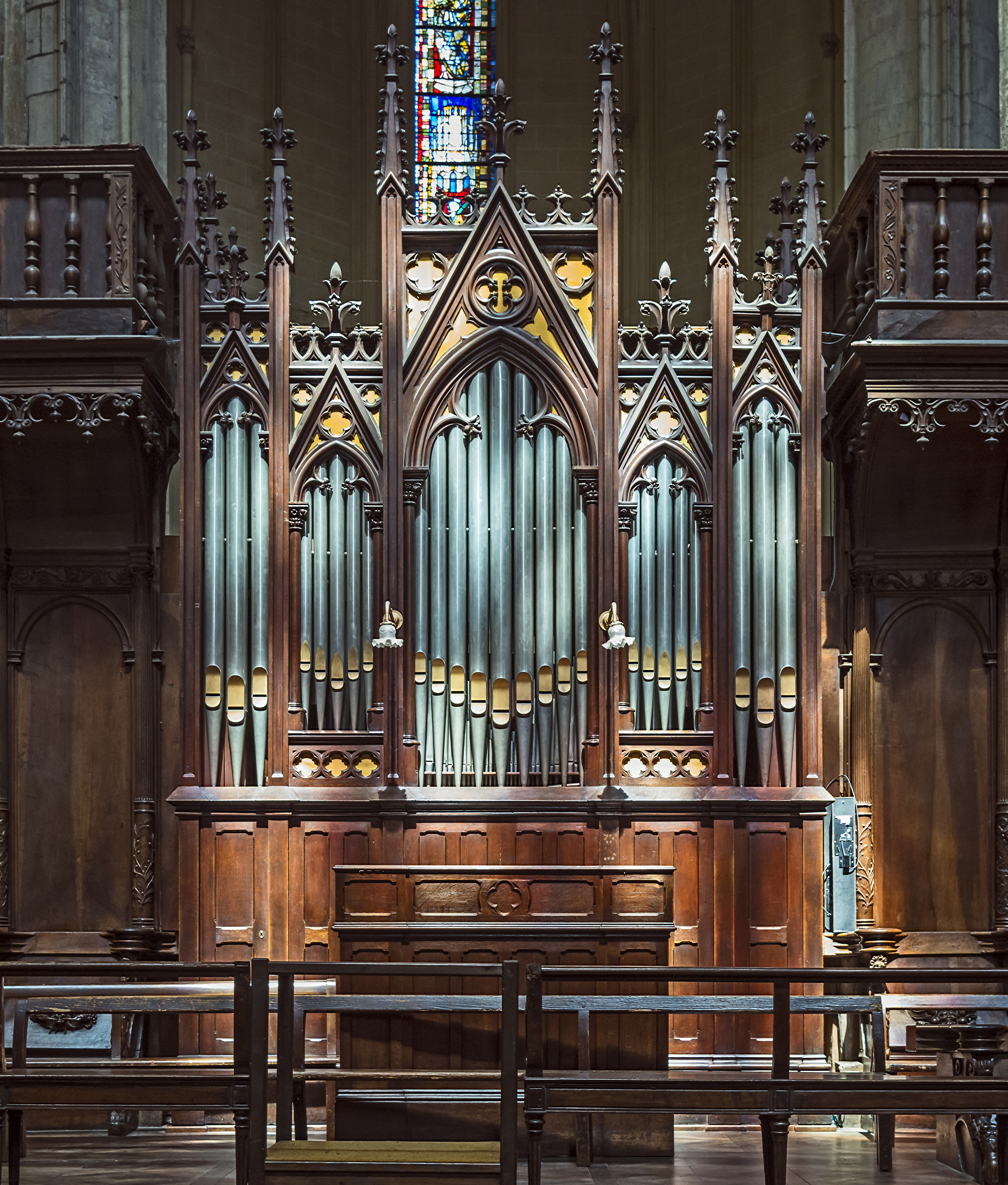 Toulouse Cathedral- The choir organ by Aristide Cavaillé-Coll (organ builder) in 1868.